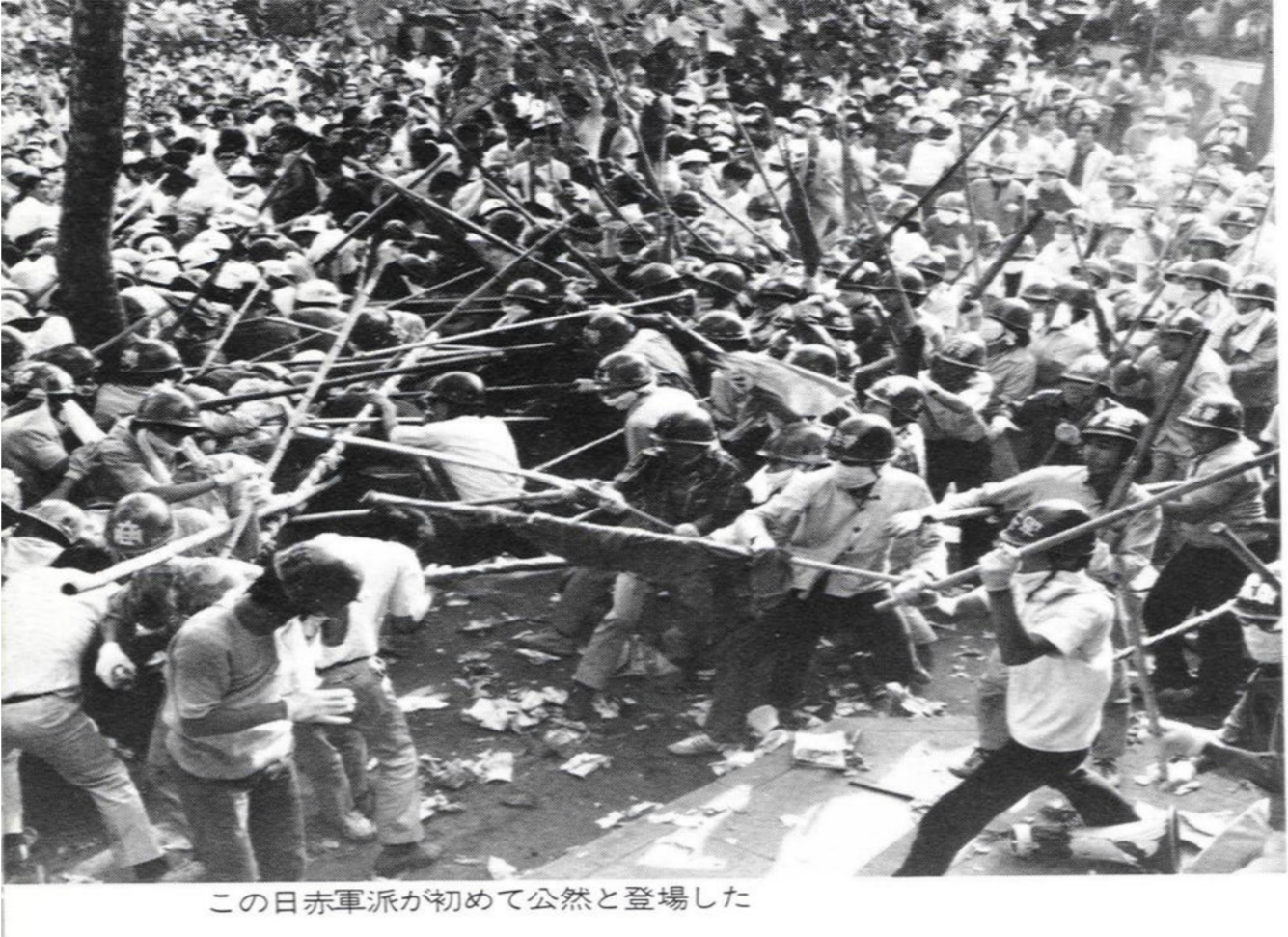 Public debut of the independent Red Army Faction at the National Zenkyōtō convention, Hibiya Park, September 5, 1969. Red Army Faction members (right) battled with members of Bund (left) outside Hibiya Outdoor Amphitheatre